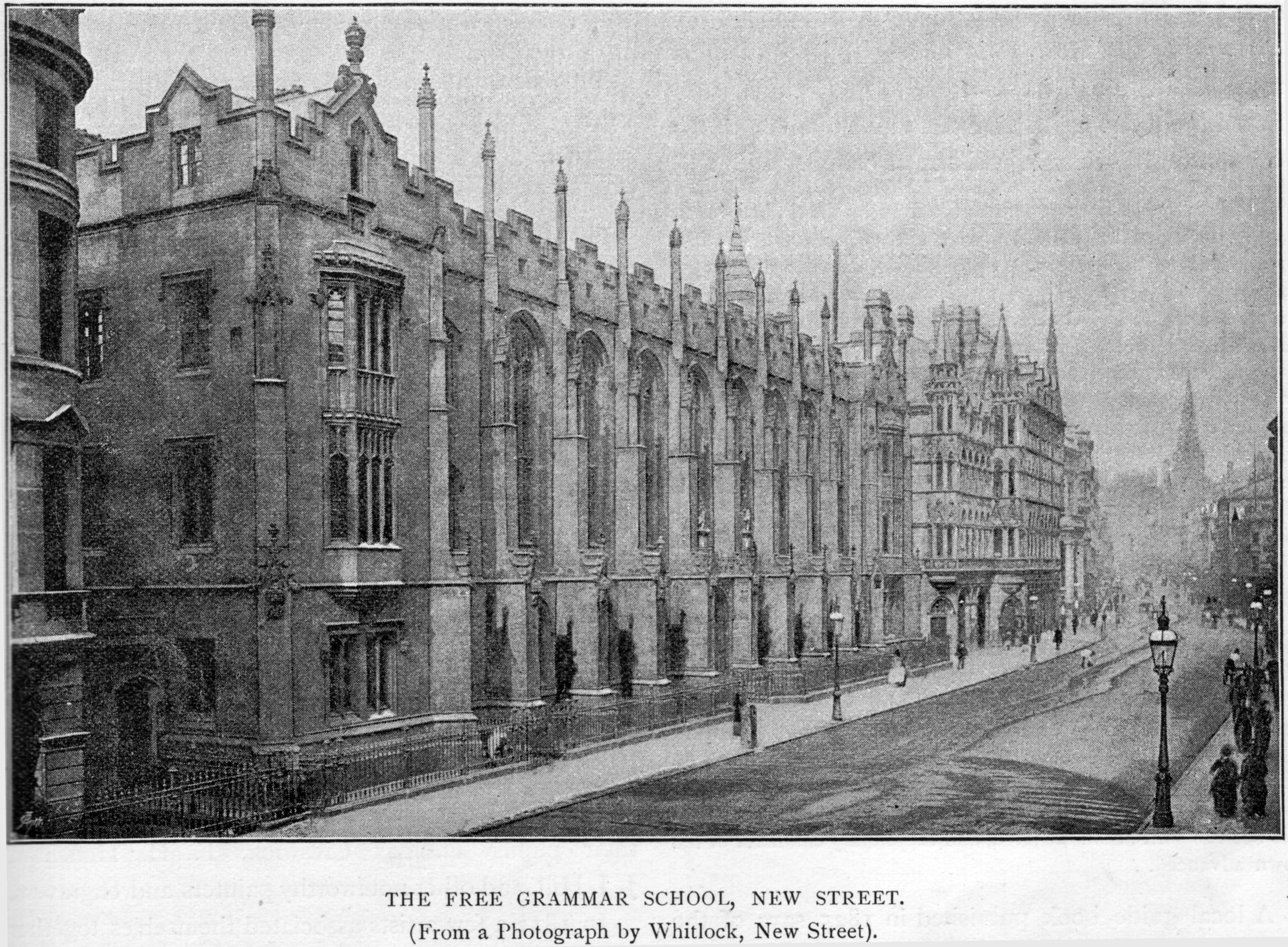 The Free Grammar School, now known as King Edward's School, New Street, Birmingham, England. Architect Charles Barry. Demolished. The spire in the distance (right) is Christ Church, in what is now Victoria Square.